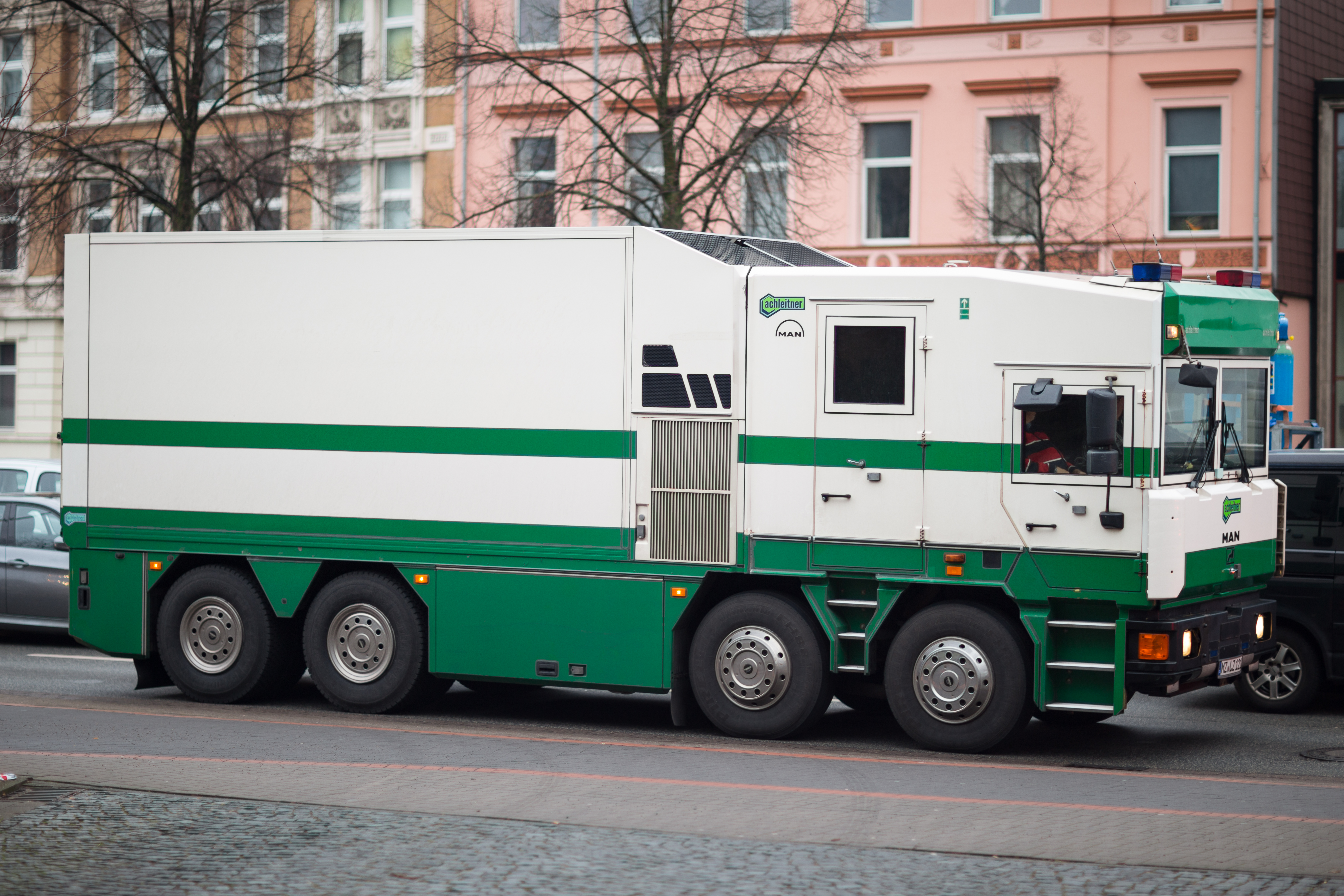 State owned bullion truck of the Federal State Bank Mainz (?) in Germany. The truck is a MAN gl type offroad truck with a special body made by Achleitner company.